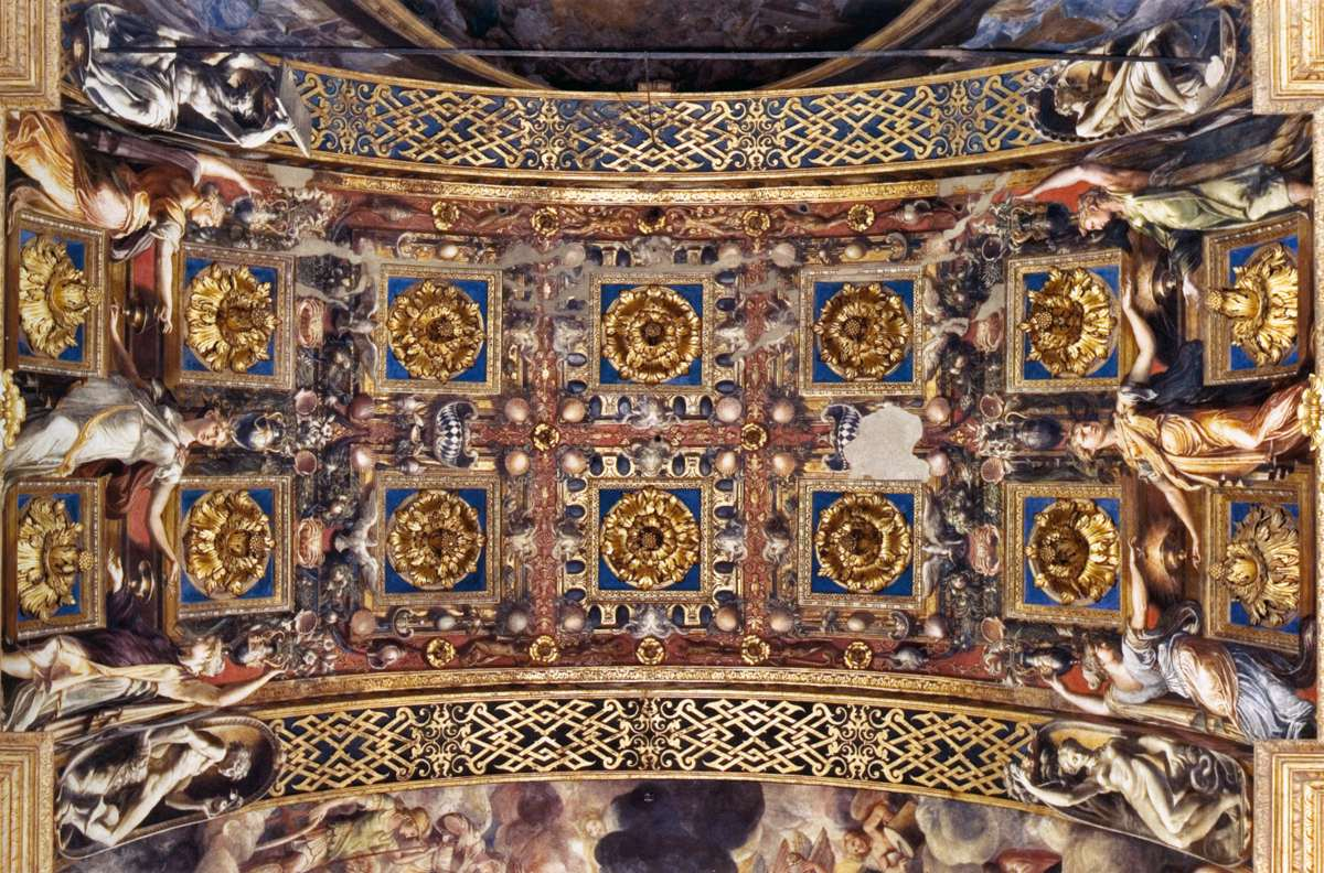 Santa Maria della Steccata (Parma): Decoration of the under-arch above the main altar